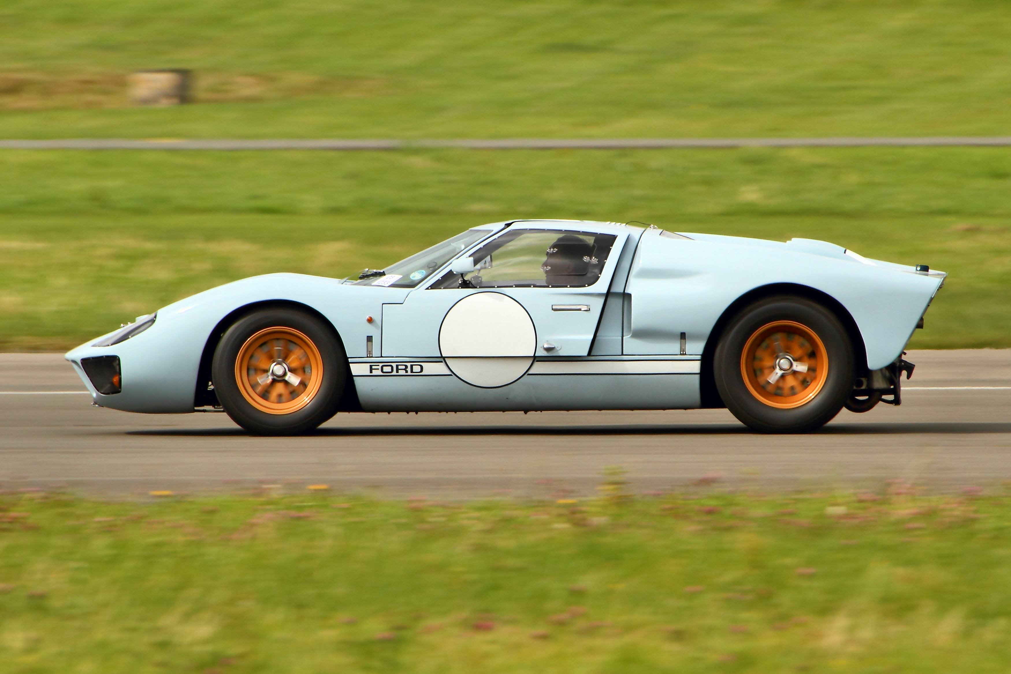 Dunsfold Wings and Wheels 2014 Cars and Bikes